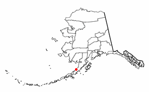 Adapted from Wikipedia's AK borough maps by Seth Ilys.